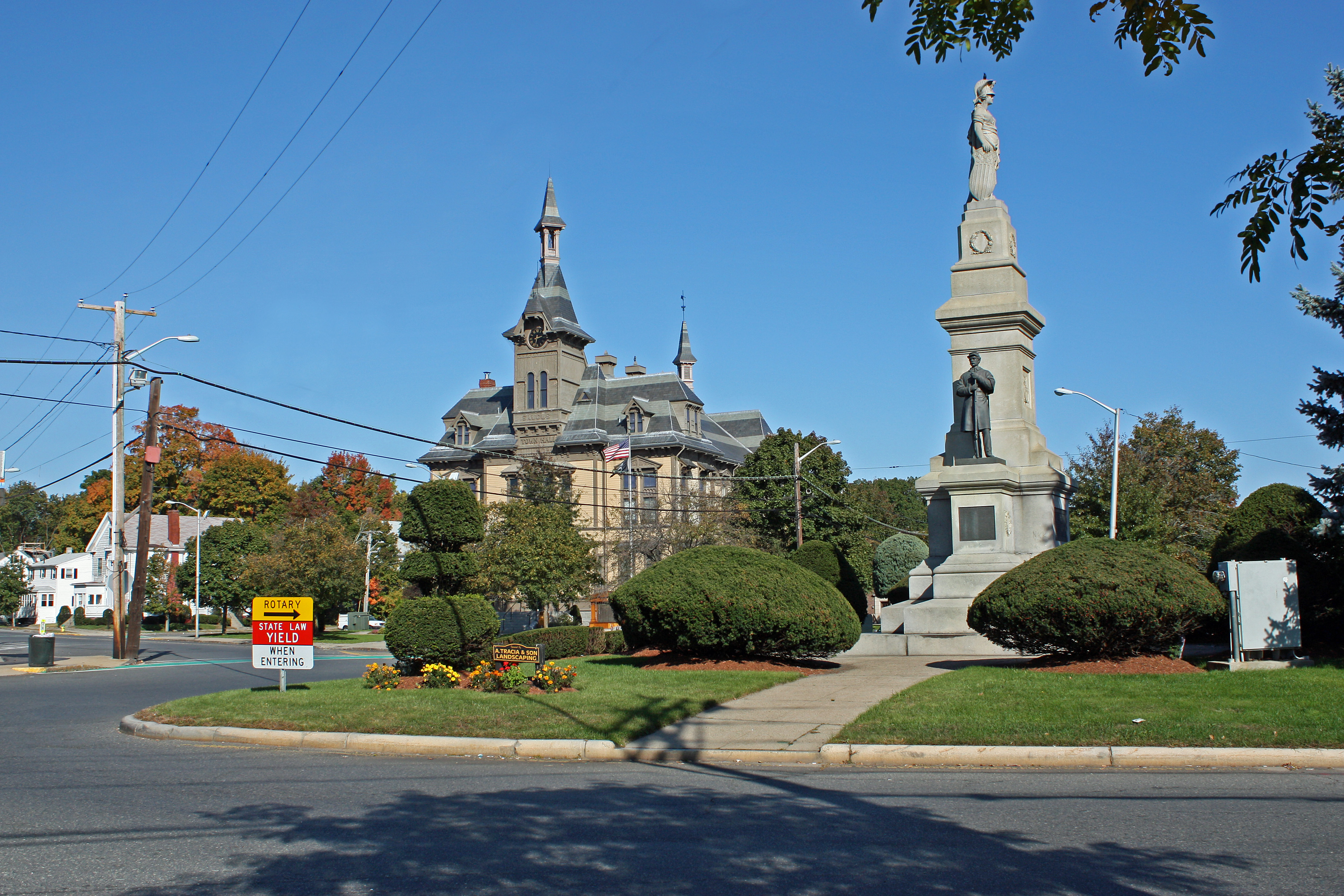 View of Saugus Massachusetts USA center rotary and town hall.